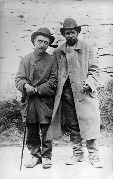 1 negative : glass, dry plate, b&w ; 11 x 8.5 cm.